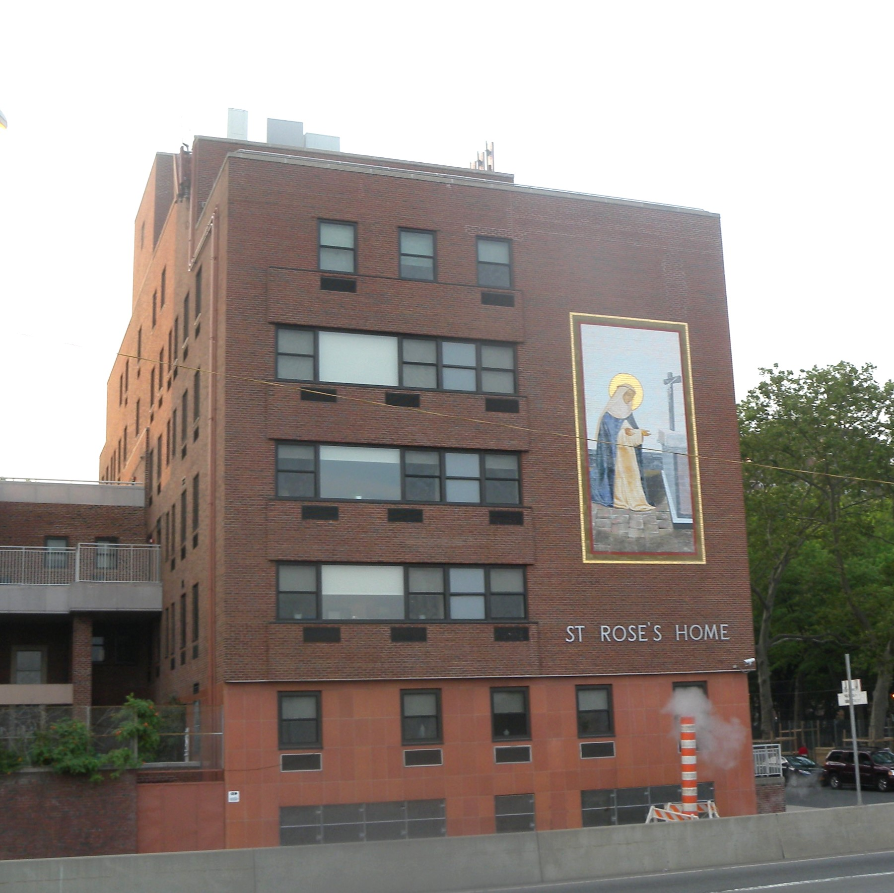 Looking north across East River Drive at Saint Rose's Home on a partly sunny late afternoon.